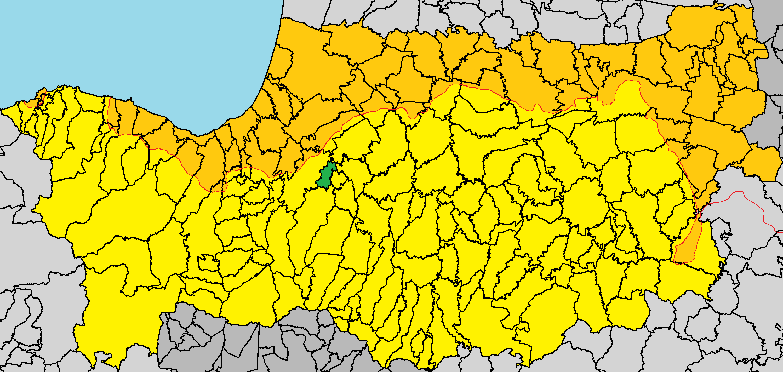 Pano Koutrafas in Nicosia District.